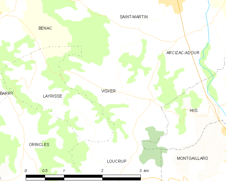 Map of French municipality